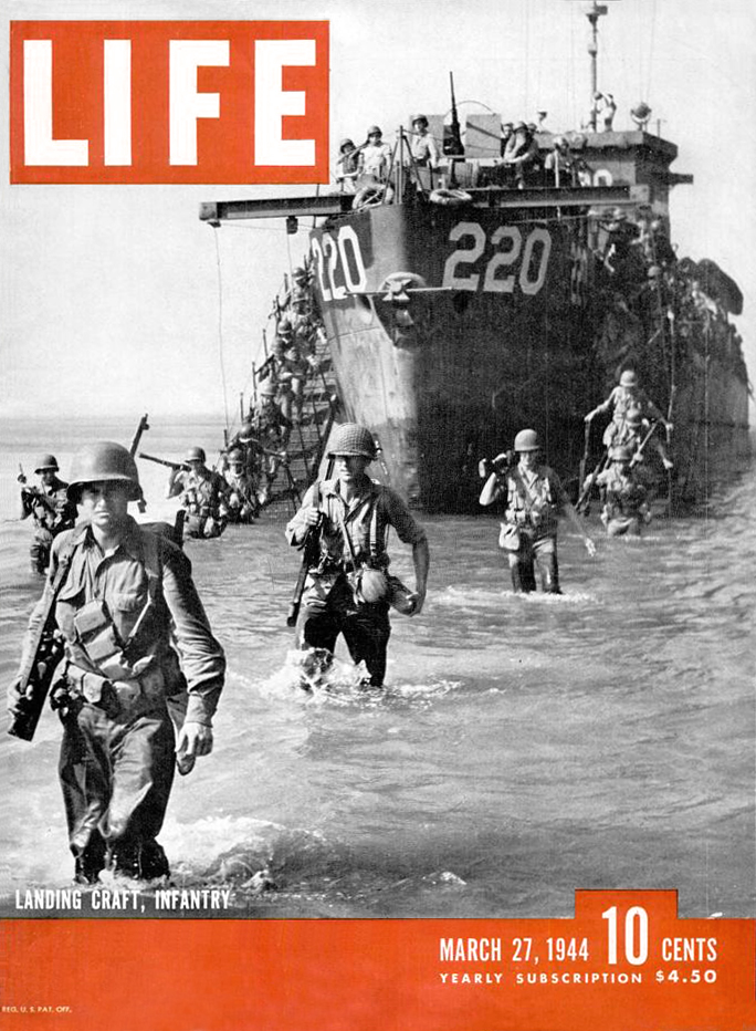 Front cover of the March 27, 1944, issue of Life magazine, featuring a photograph captioned "Landing Craft, Infantry" (U.S.S. LCI 220)